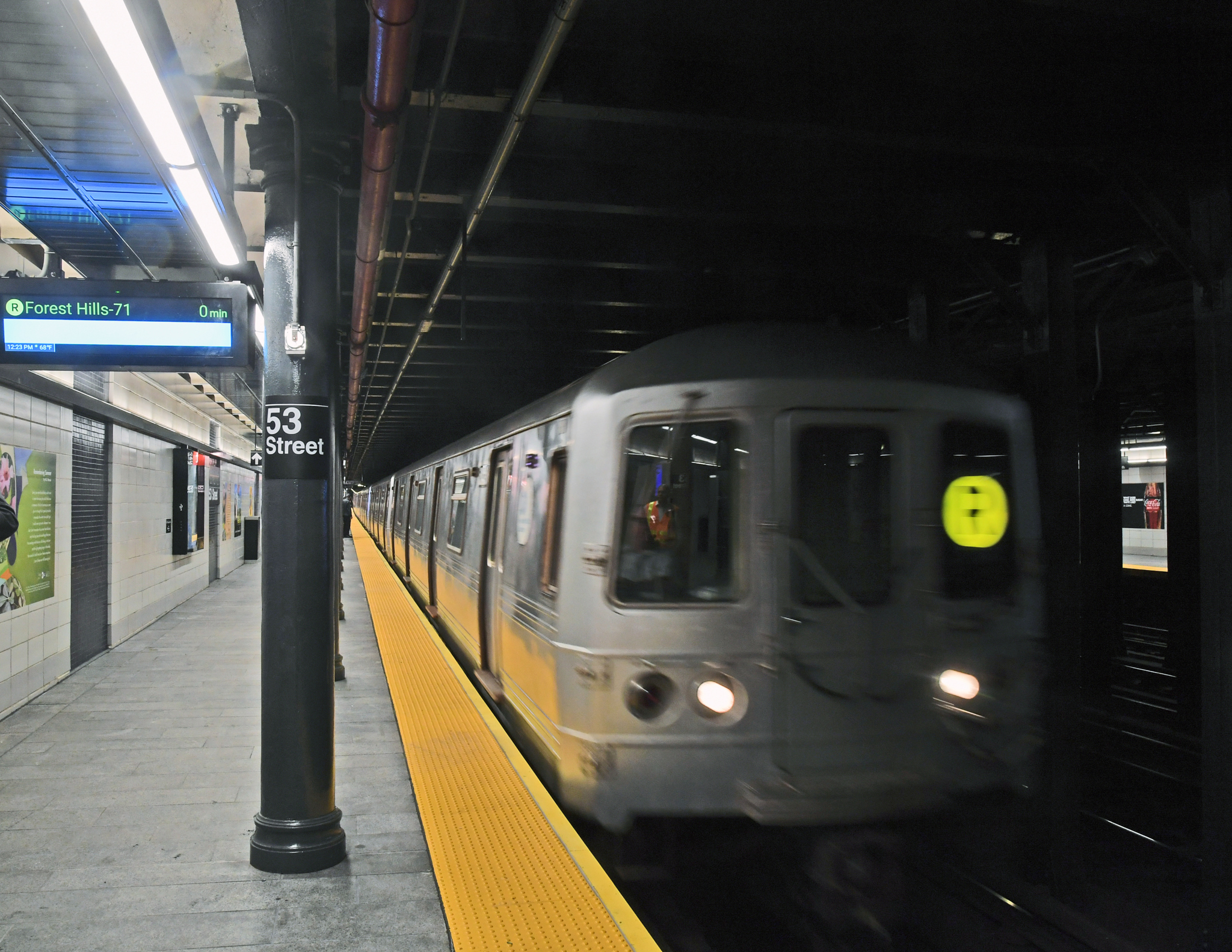 MTA Managing Director Veronique "Ronnie" Hakim reopened the 53 St Station on the R line in Brooklyn on Fri., September 8, 2017, after a rehabilitation under the Enhanced Station Initiative (ESI.) The initiative modernizes stations and features improved customer experience. Photo: Marc A. Hermann / MTA New York City Transit